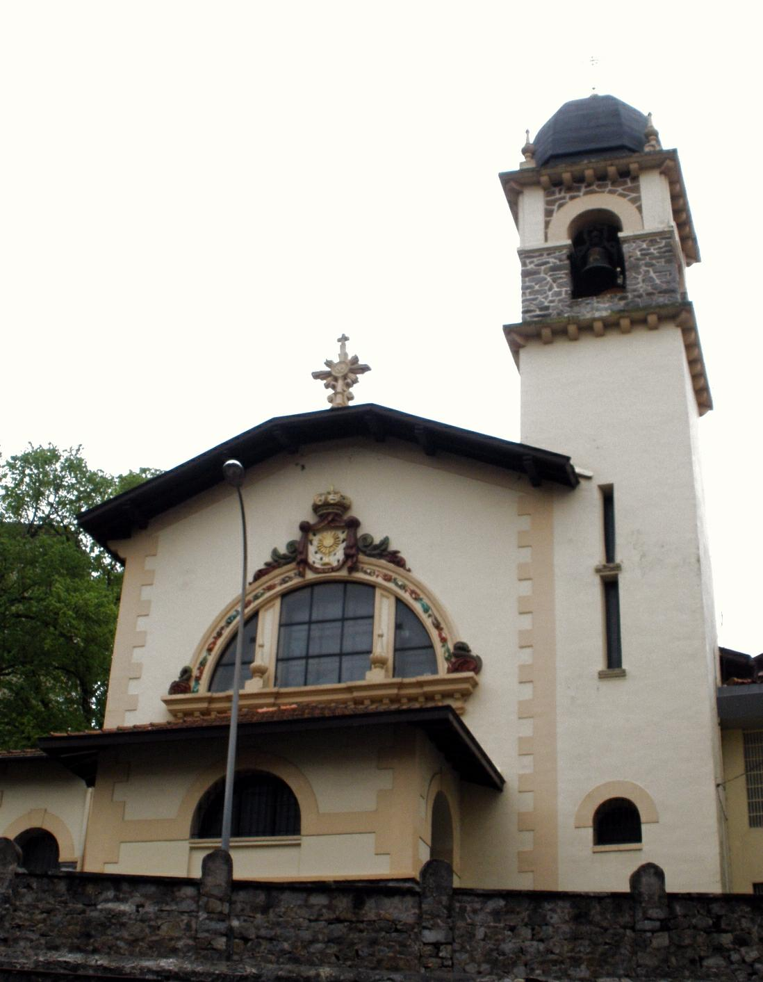 Iglesia del Corpus Christi, Tolosa (Guipúzcoa, País Vasco, España)